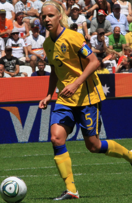 Caroline Seger playing for Sweden in the 2011 FIFA Women's World Cup